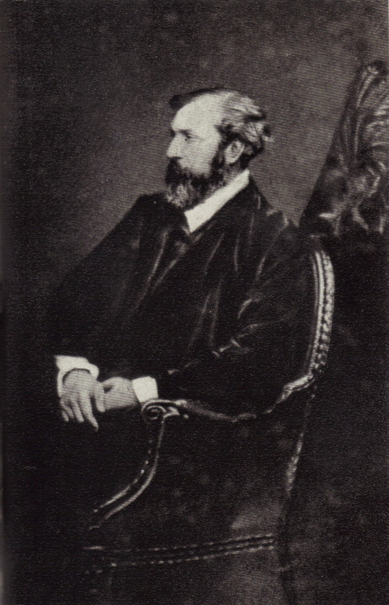 19th century photograph of Pierre-Jules Hetzel (1814-1886).